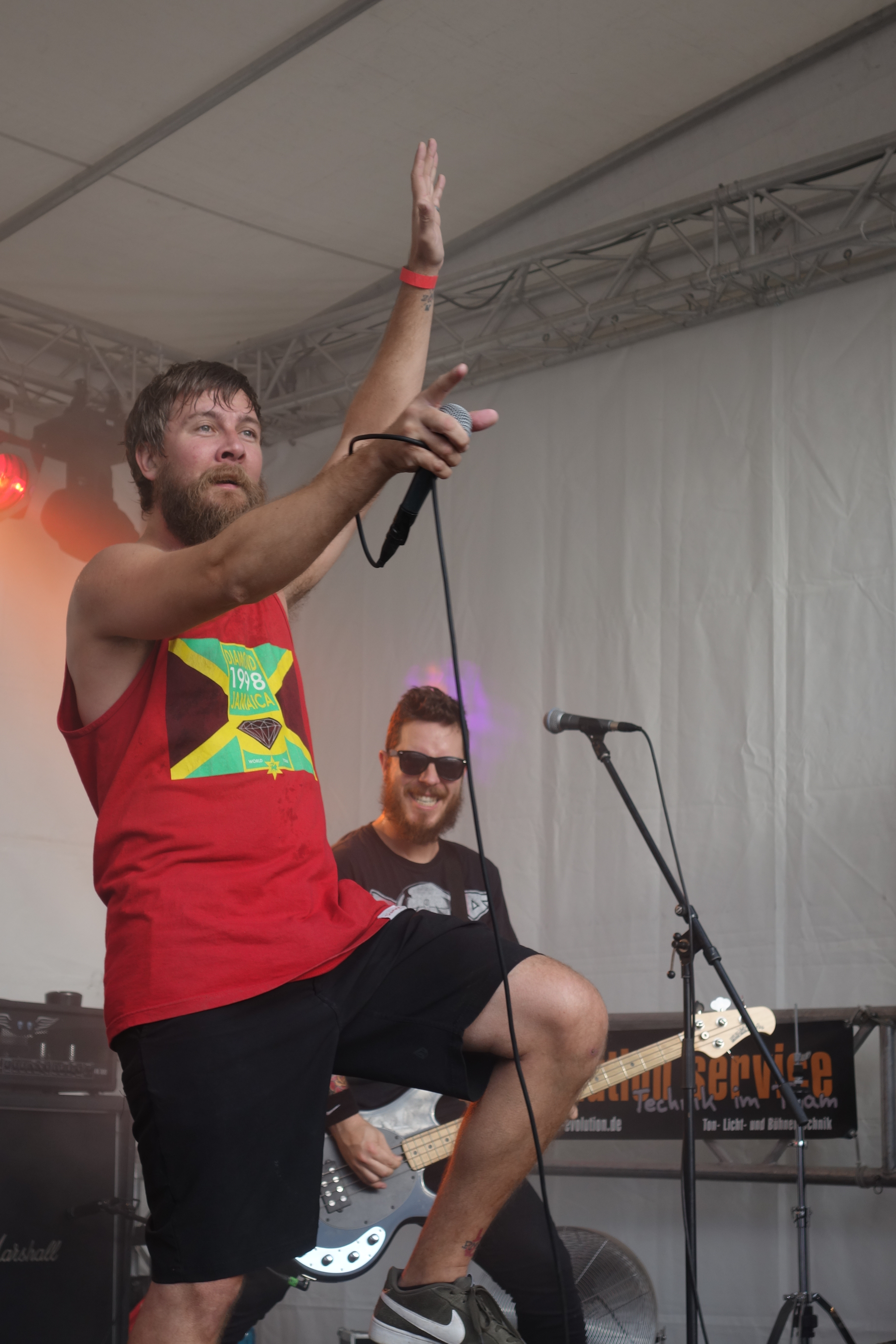 Jason DeVore of Authority Zero live at Museumsuferfest Frankfurt 28th August 2016